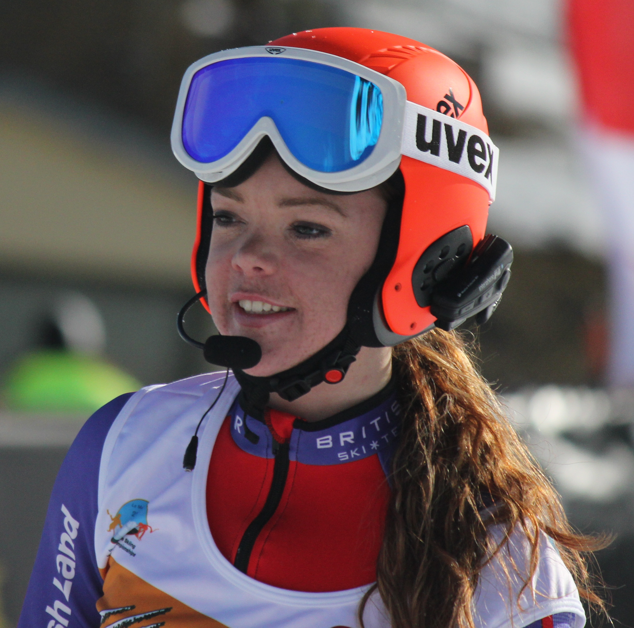 The women's visually impaired Super-G event at the 2013 IPC Alpine World Championships in La Molina, Spain. Jade Etherington.